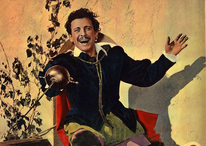 Modugno in the movie Il mantello rosso. Single framse of a movie is considered by italian law as a photography.